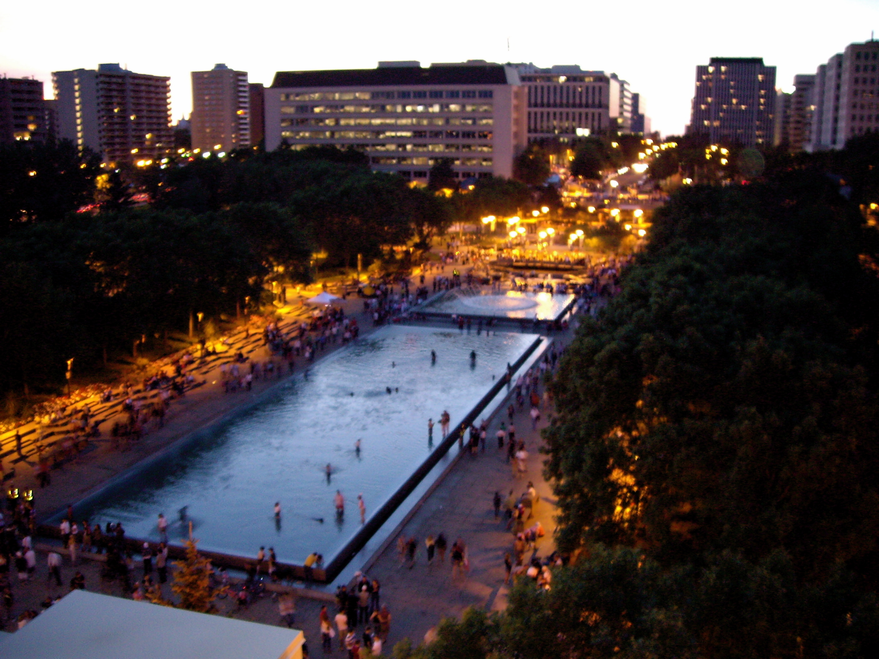 The grounds of the Legislative Assembly of Alberta in Edmonton, Alberta, Canada, as seen from the roof of the building. Photograph taken on Canada Day 2006, hence the large numbers of people massing on the grounds. The nearer of the two pools is known as the Reflecting Pool, and provides a reflection of the building when seen from the far end of the grounds.